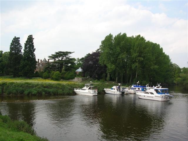 Nun Monkton Priory. Viewed from across the Ouse (to the right), and the Nidd converging (left).